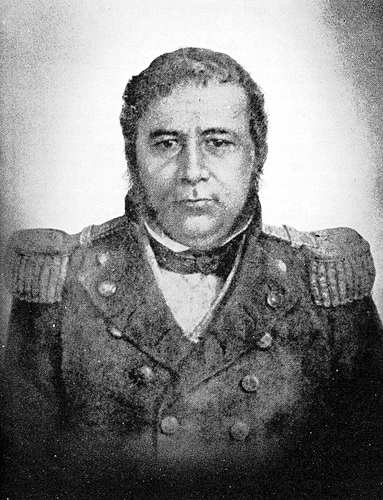 Pedro Santana (1801-1864), first president of the Dominican Republic.